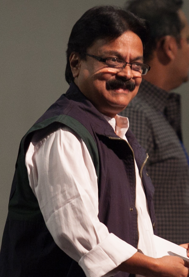 Lutfor Rahman Riton performed in San Francisco Bay Area, California in an event organized by BABA (Bay Area Bangladesh Association).